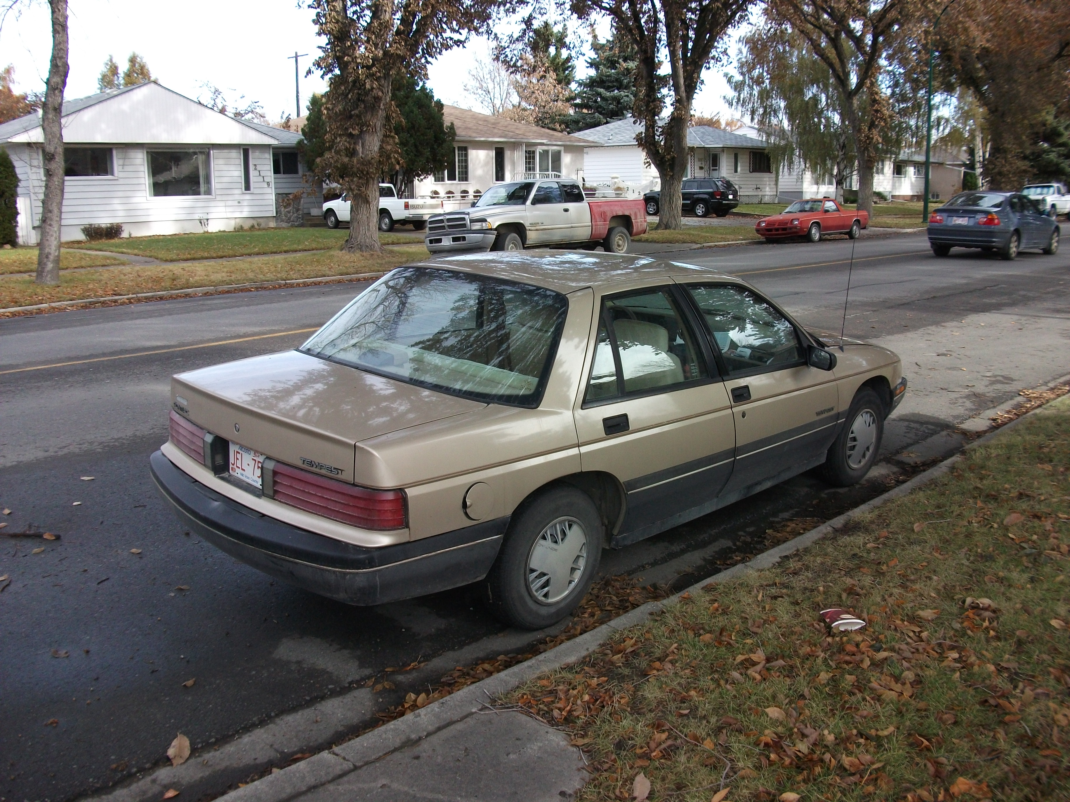 Canada only version of the Chevrolet Corsica - with different grill, hub caps and often two tone paint.